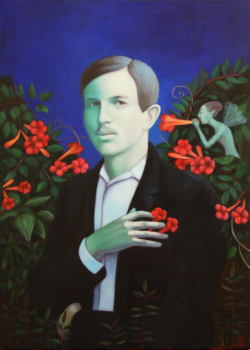 Ferenc Békássy (1893–1915) Hungarian poet